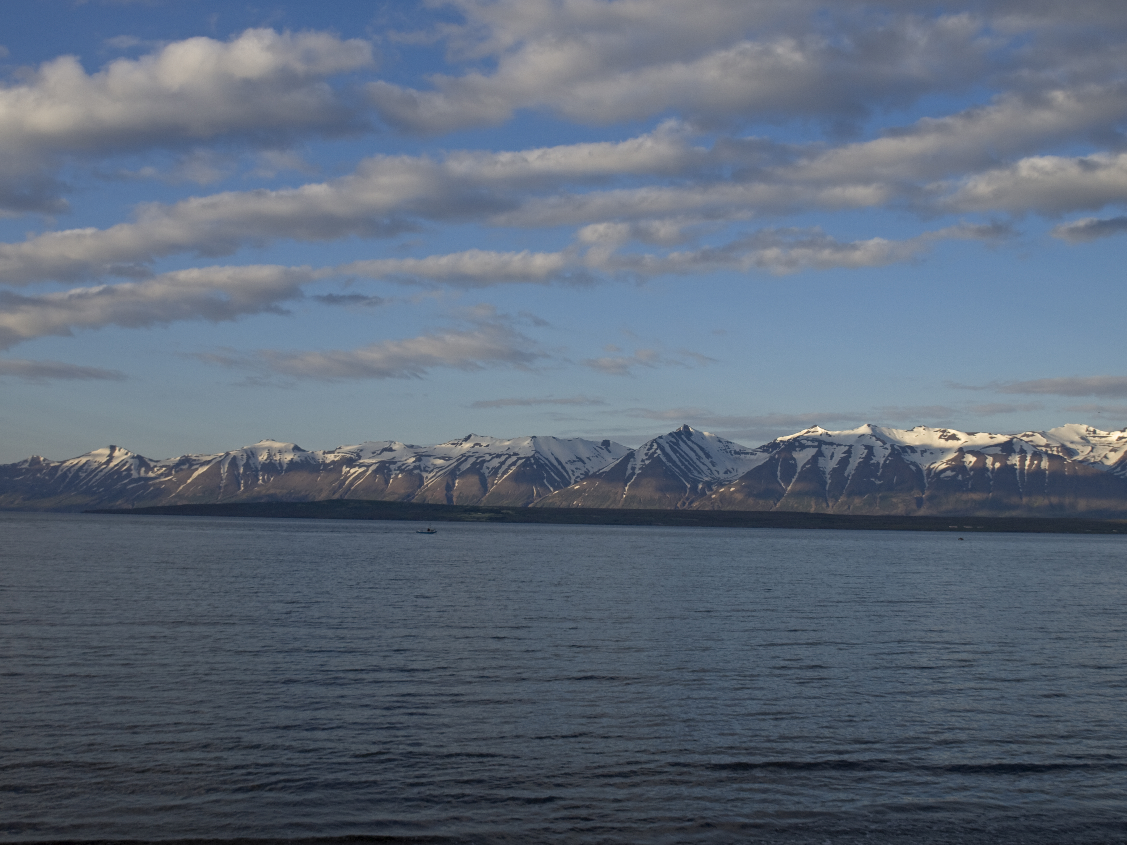 Eyjafjörður from Dalvik